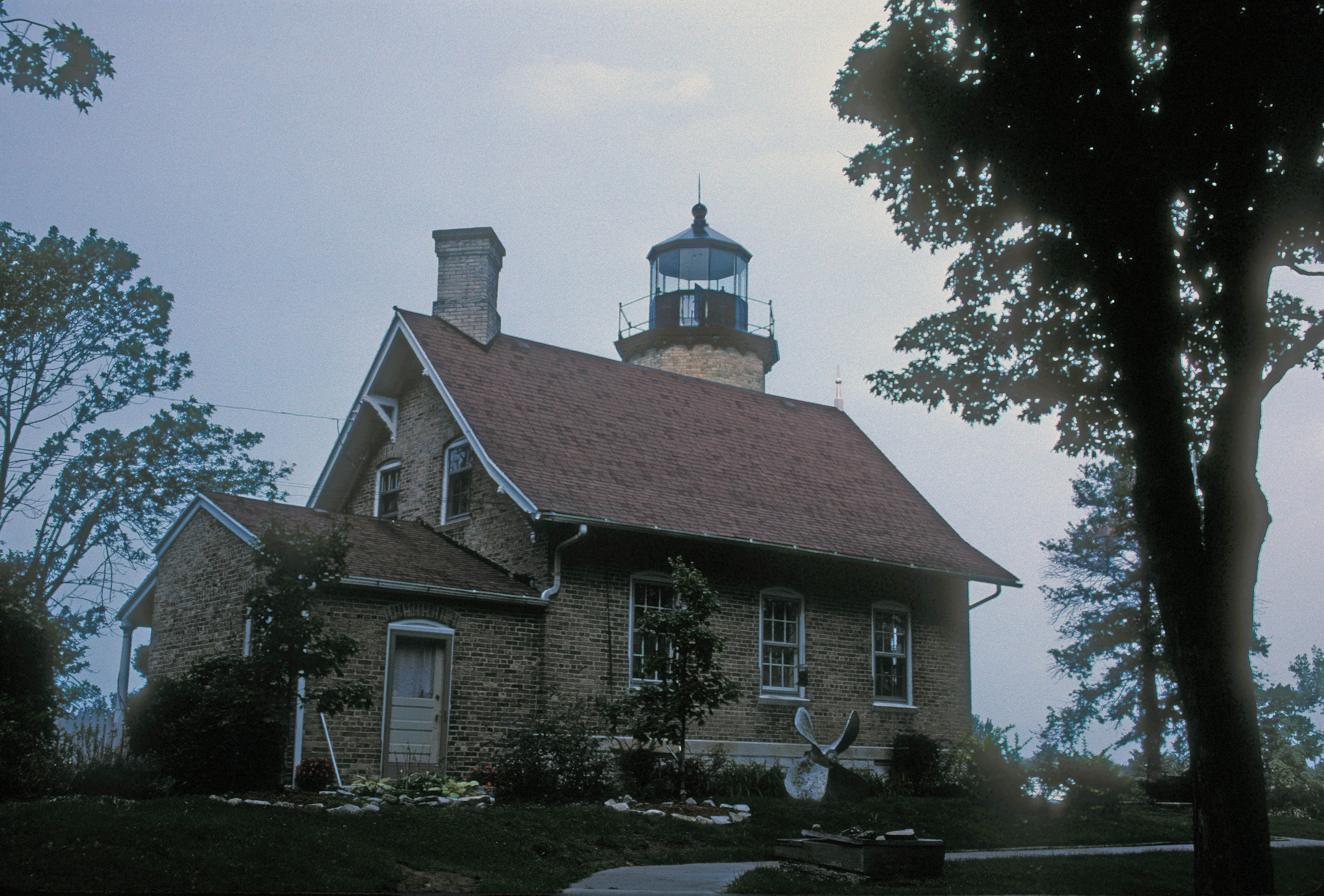 WHITE RIVER LIGHT; IN 1870 COMMERCIAL INTERESTS DECIDED TO CUT A CHANNEL BETWEEN WHITE LAKE AND LAKE MICHIGAN; 5 YEARS LATER THEY ERECTED THIS LIGHTHOUSE CONSTRUCTED OF LIGHT COLORED BRICK